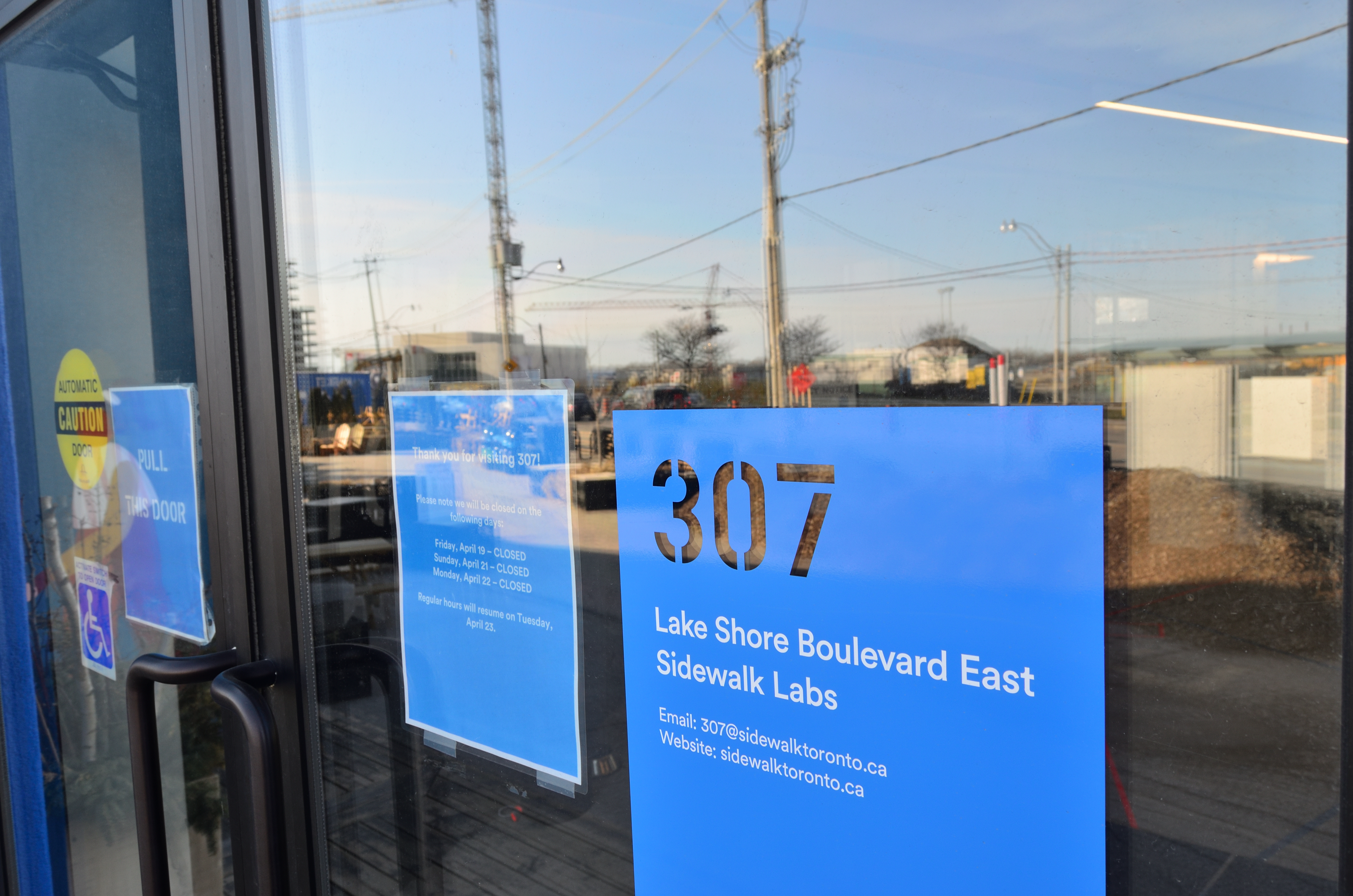 Sidewalk Labs Toronto office - address: 307 Lake Shore Blvd E, Toronto, ON M5A 1C1